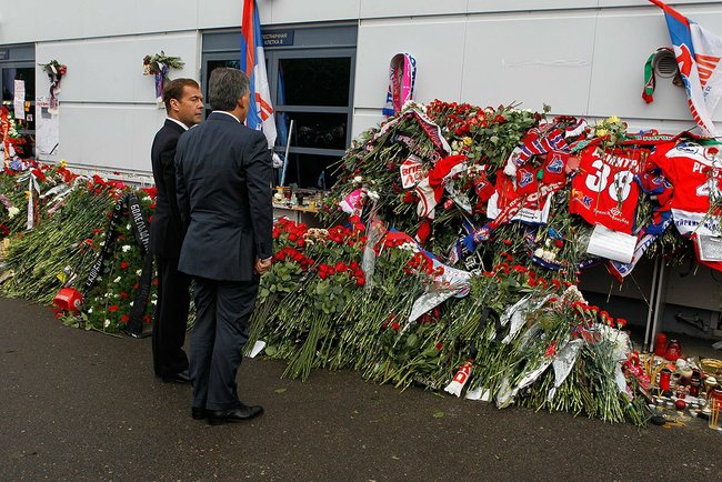 Laying flowers at the impromptu shrine to commemorate the Yak-42 plane crash victims. With President of Turkey Abdullah Gul.